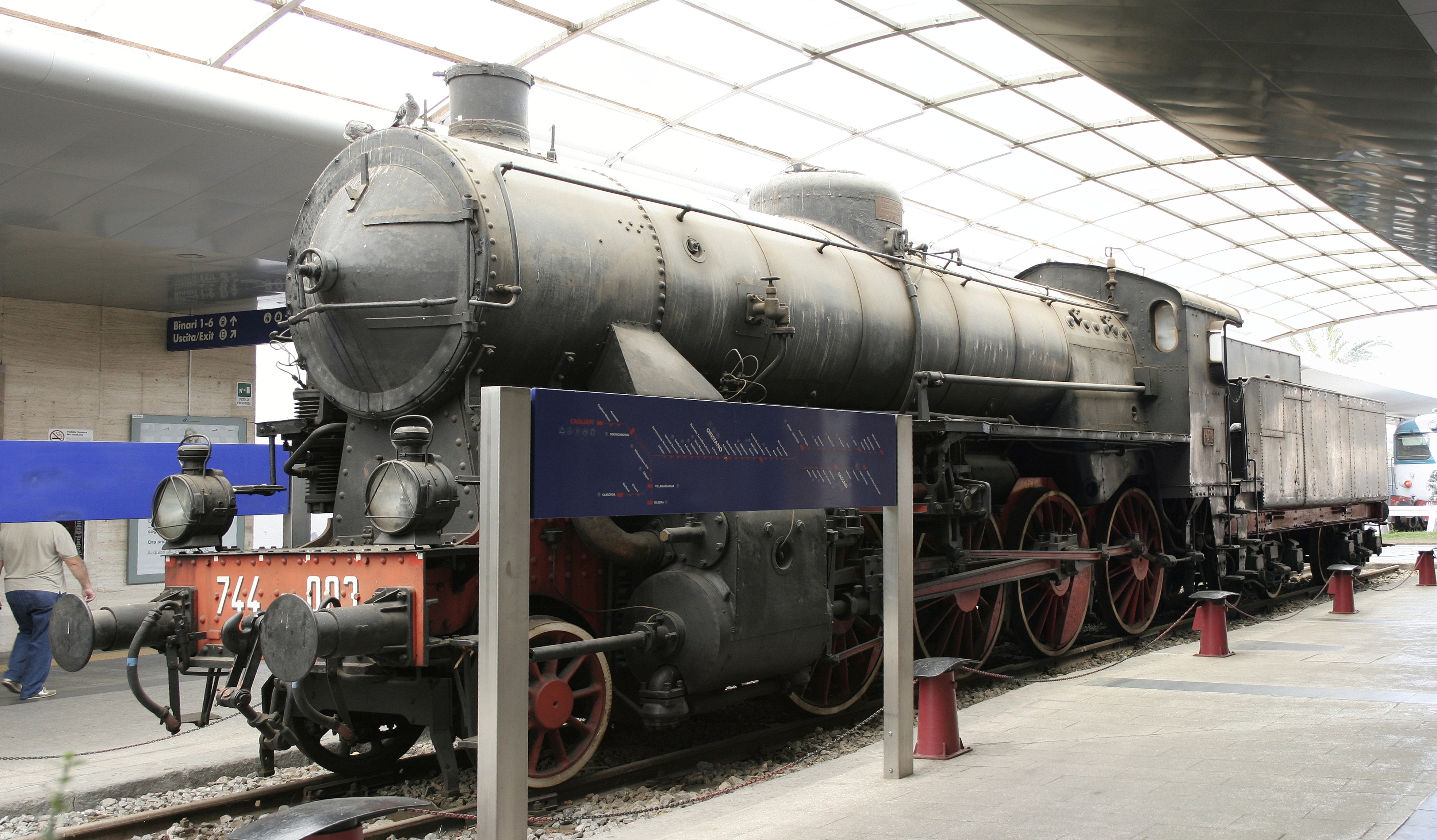 Italian steam locomotive FS 744 number 003, located in Cagliari, Sardinia